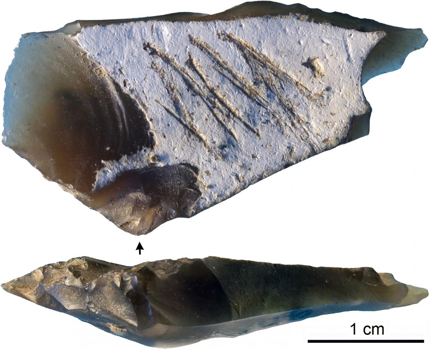 A flint flake from the Middle Paleolithic site of Kiik-Koba, Crimea, was likely engraved symbolically by a Neanderthal hand, according to a study published May 2, 2018 in the open-access journal PLOS ONE by Ana Majkic from the University of Bordeaux, France, and colleagues.